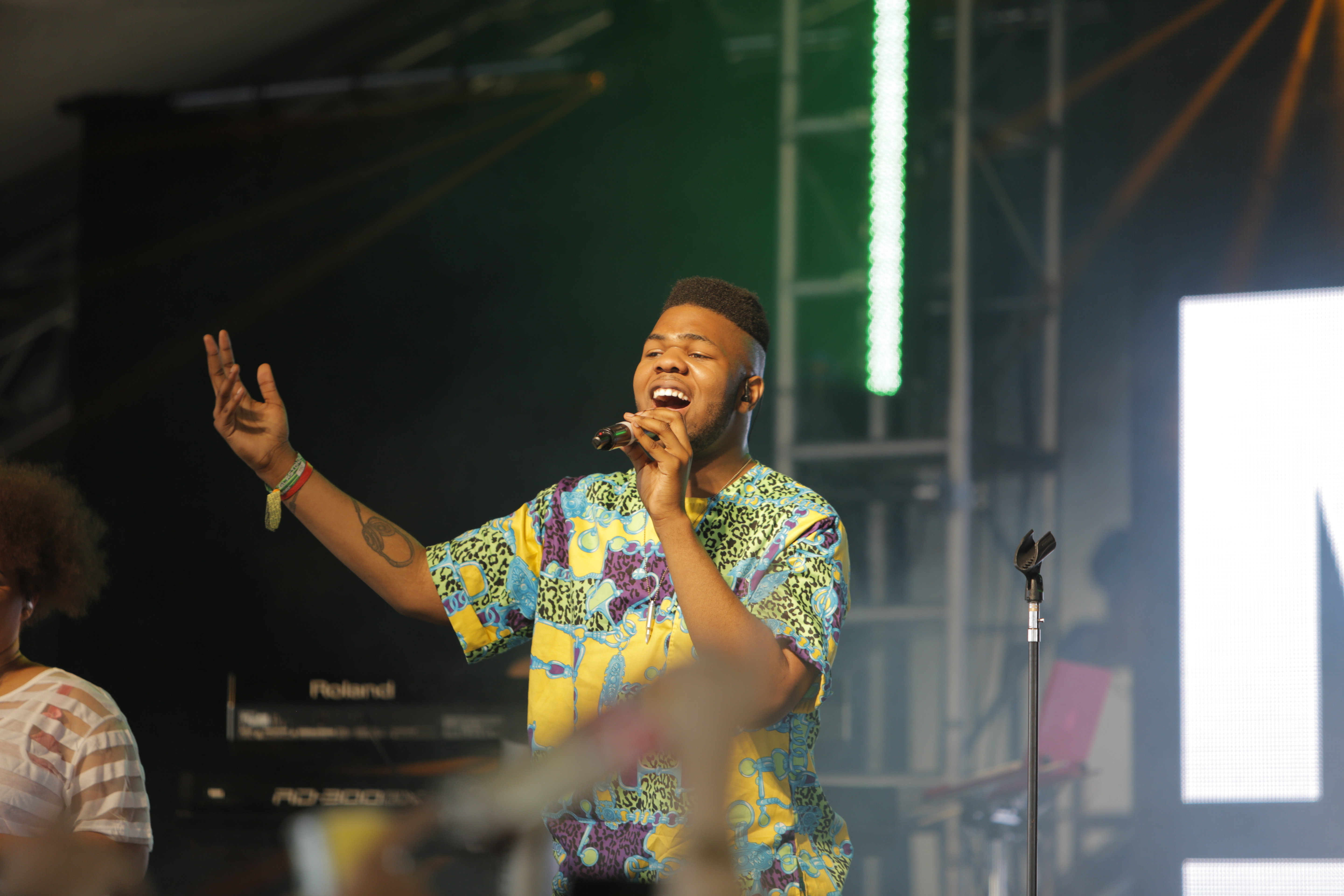 MNEK Glatsonbury Festival 2014